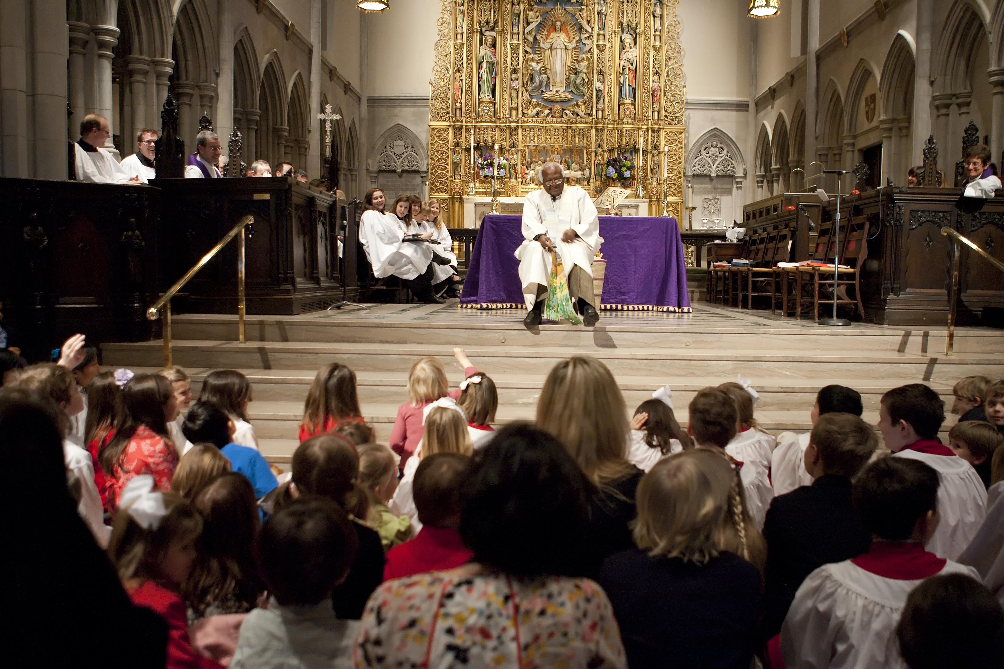 Archbishop Desmond Tutu preaching a children's sermon, March 2010, St. James' Church (Episcopal), New York City.